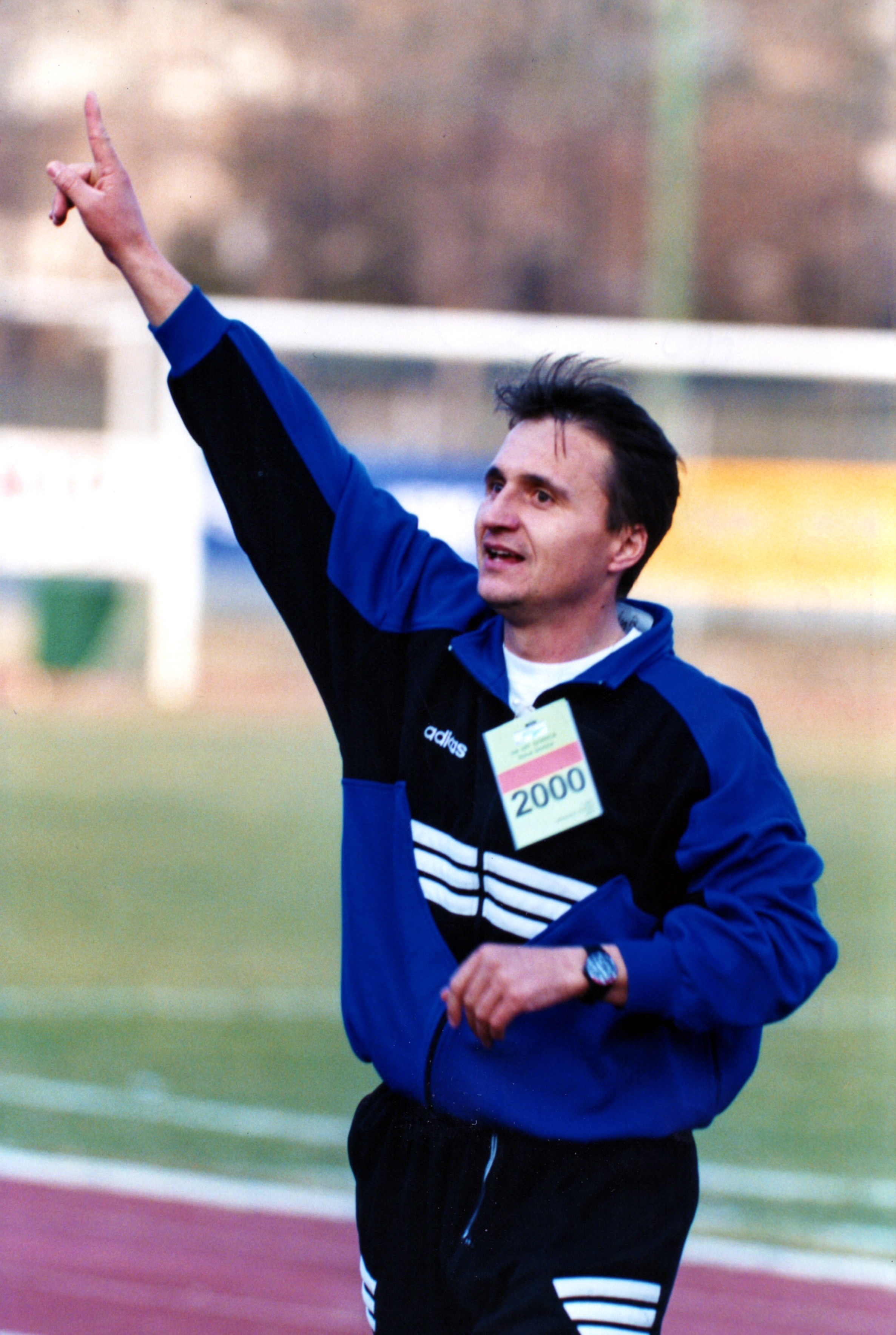 Edin Osmanović, taken in Gorica (city), HIT Gorica football stadium.